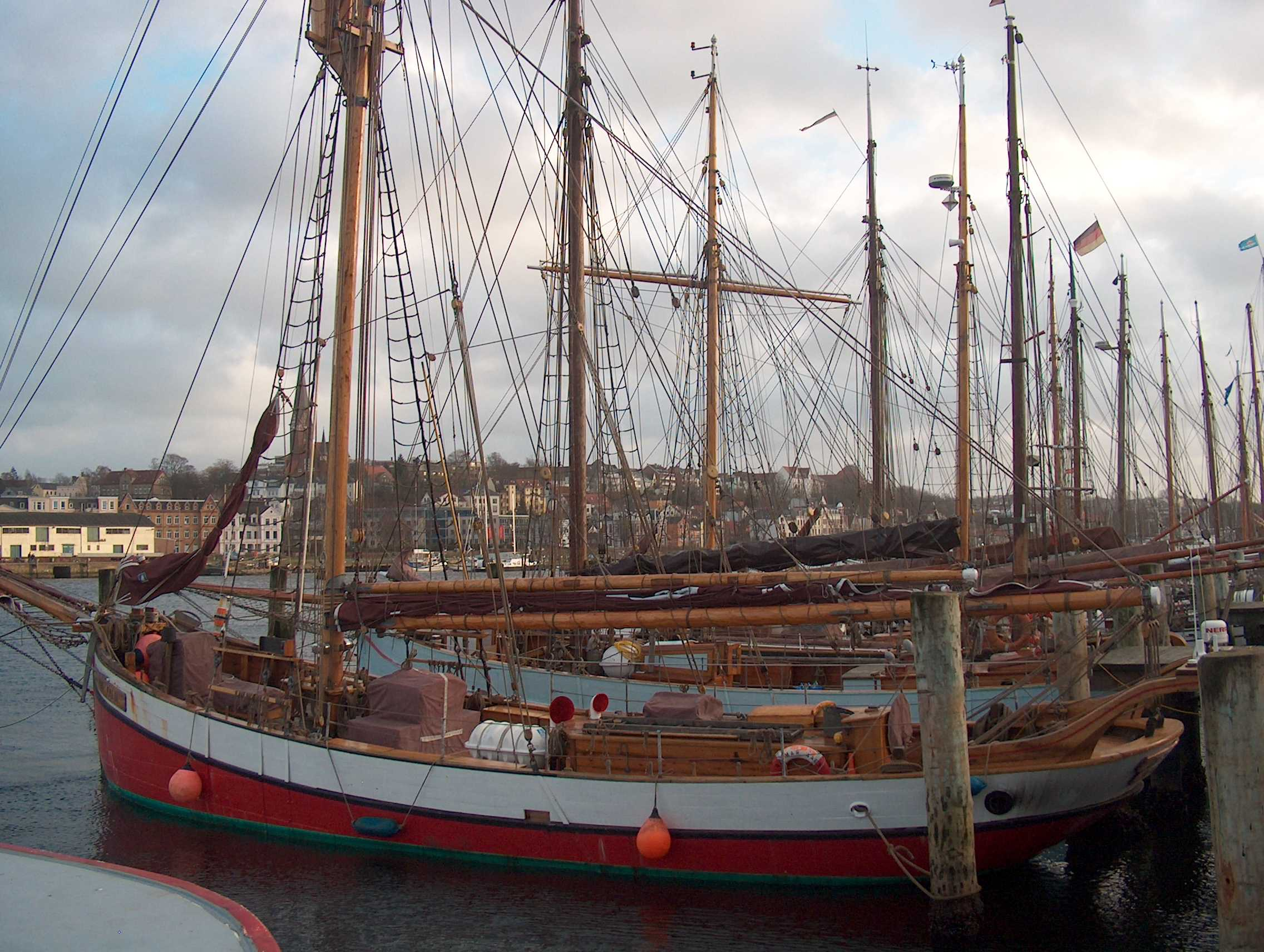 German Sailboat Dagmar Aen owned by Arved Fuchs. Picture taken january 2007 in Flensburg/Germany. MMSI Number: 211249810 Callsign: DIXX Length: 23 m Beam: 5 m